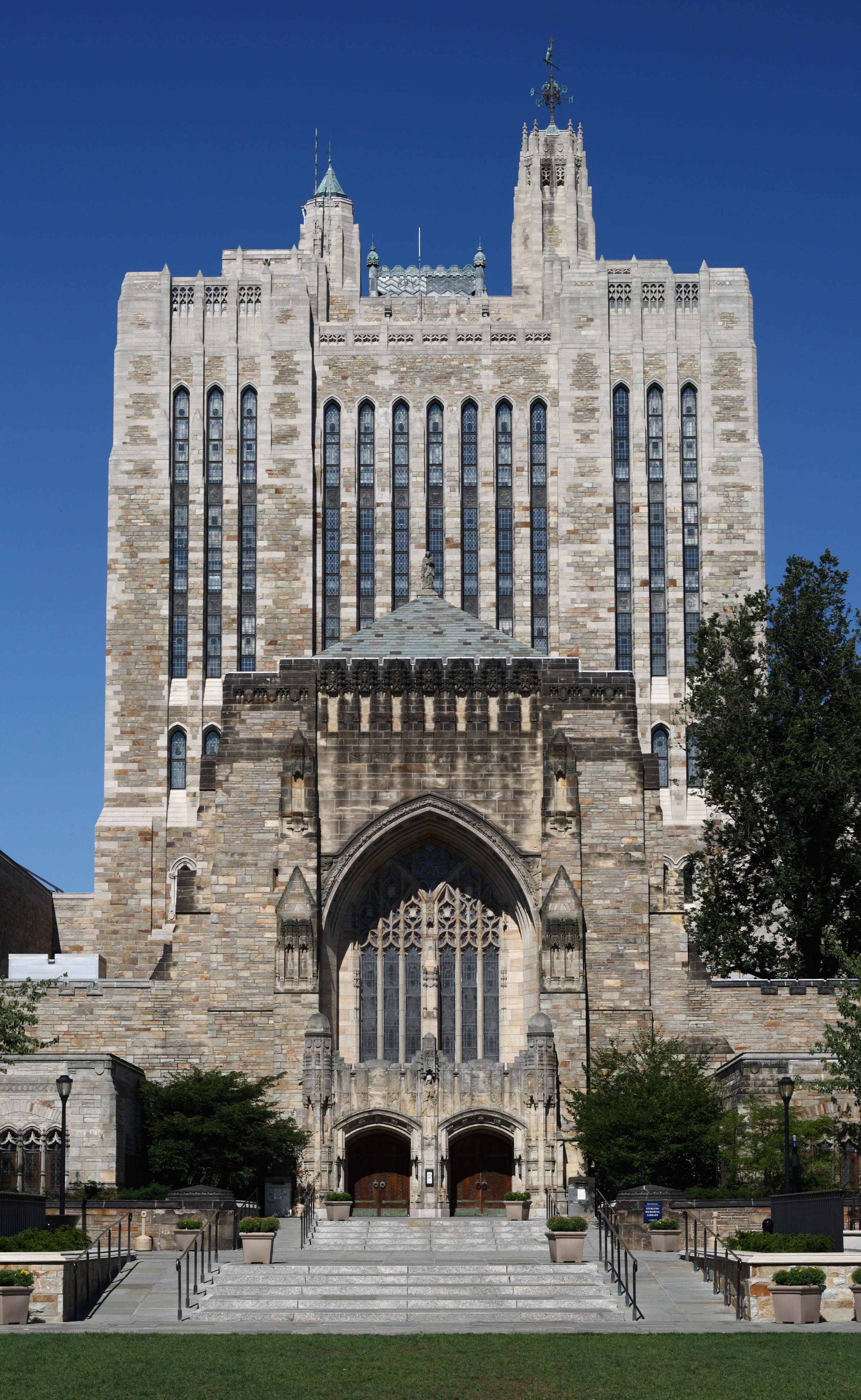 Sterling Memorial Library on the campus of Yale University.